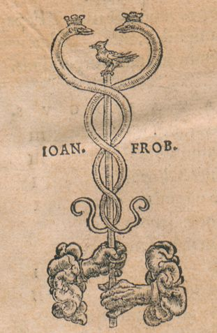 Johann Froben's mark